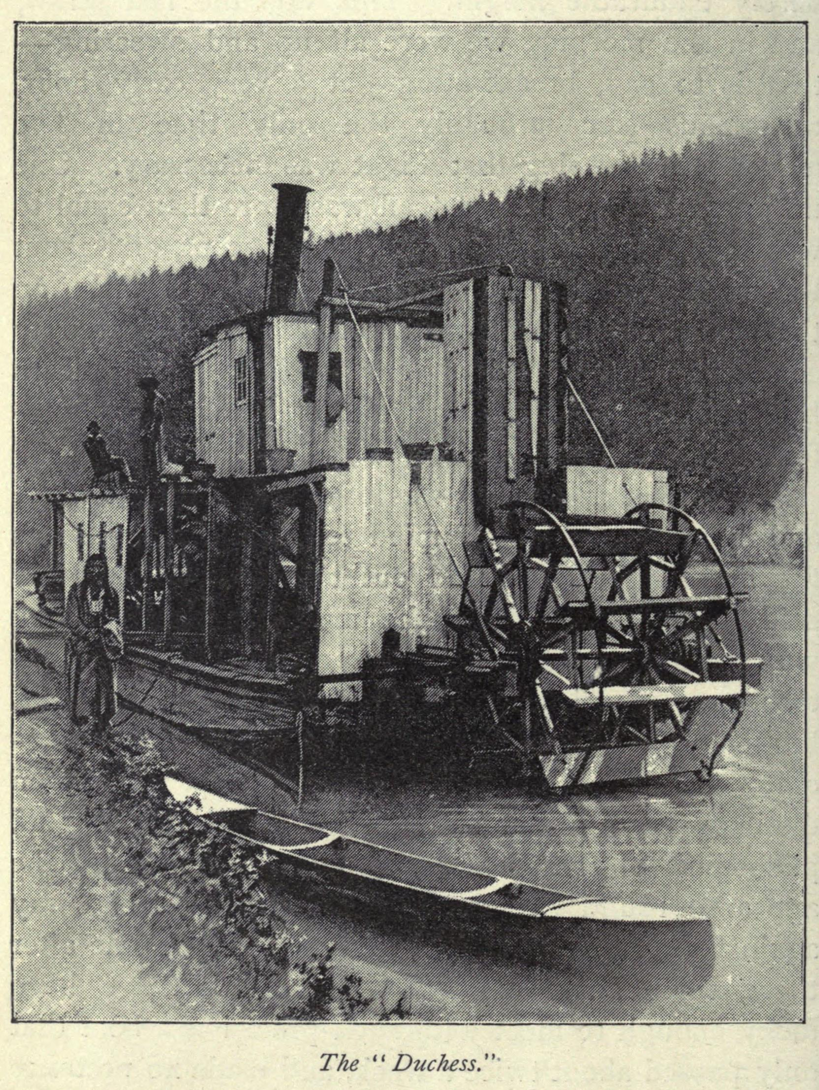 The Duchess, a sternwheel steamboat built at Golden, BC by Frank P. Moore, in 1886. This photograph was taken in 1887. The man of the First Nations at left was probably a member of the crew.